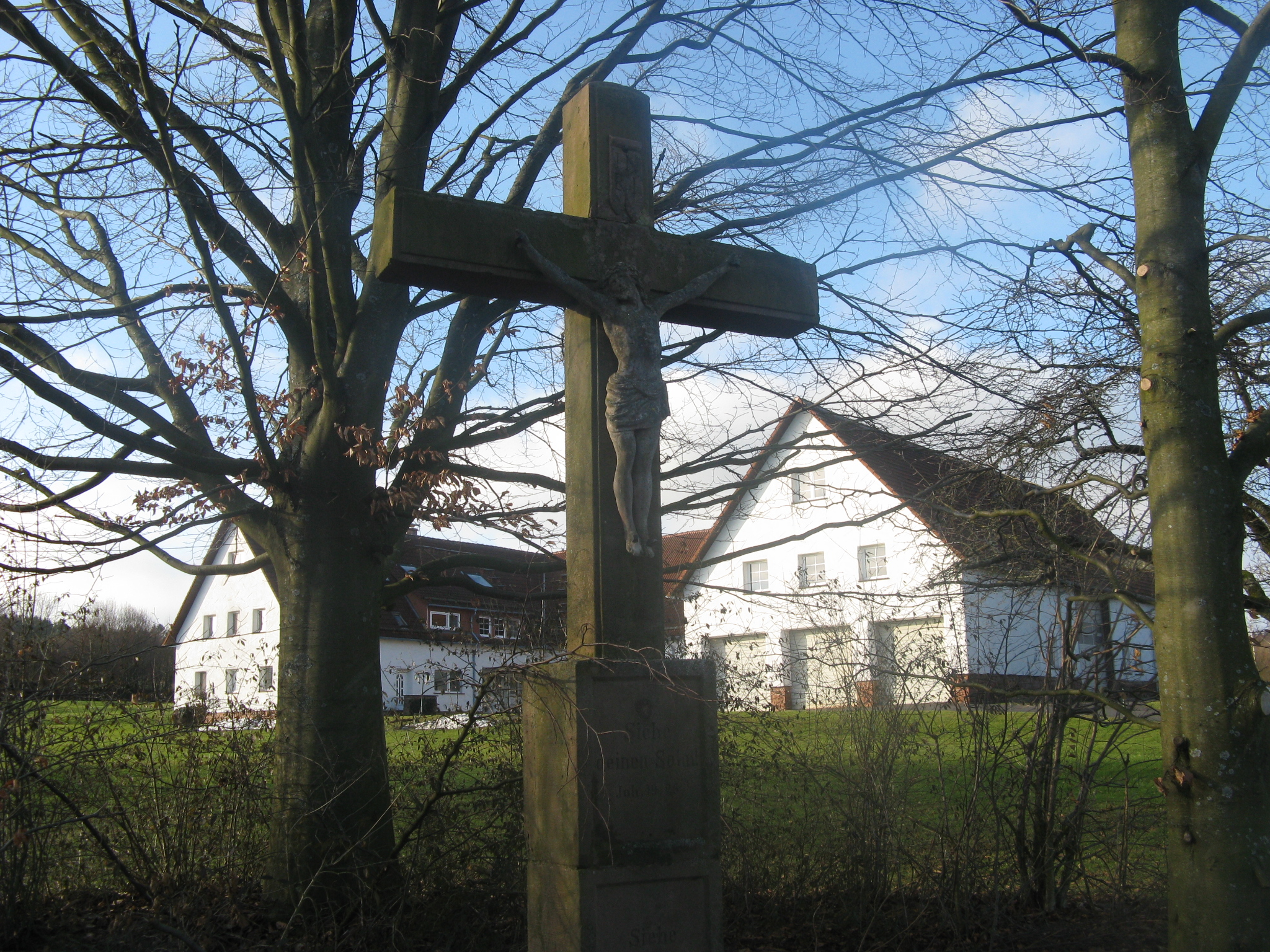 Jossgrund-Villbach, crucifix from old Lettgenbrunn cemetery